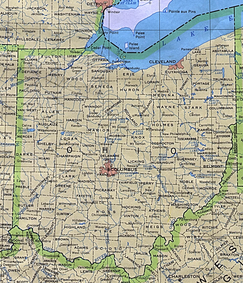 Map of Ohio